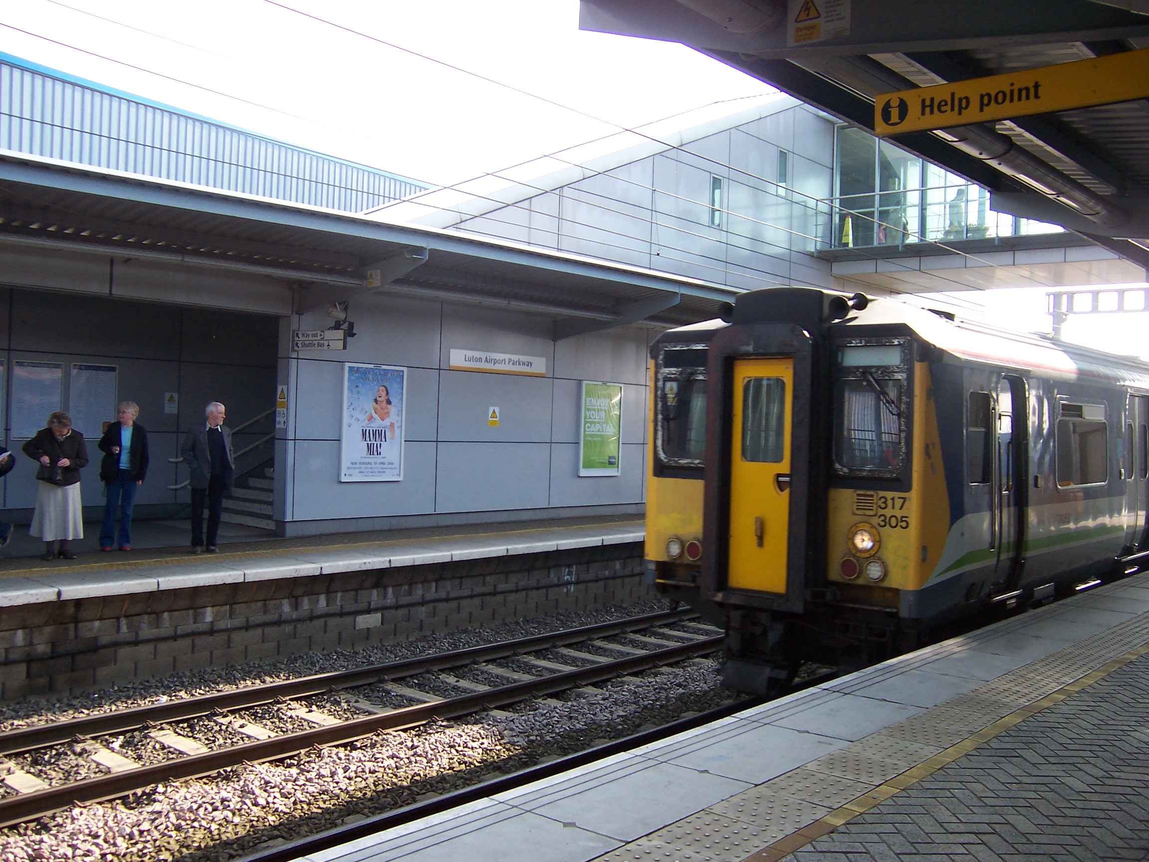 Thameslink train 317305 arrives at Luton Airport Parkway with an ex-LTS livery.